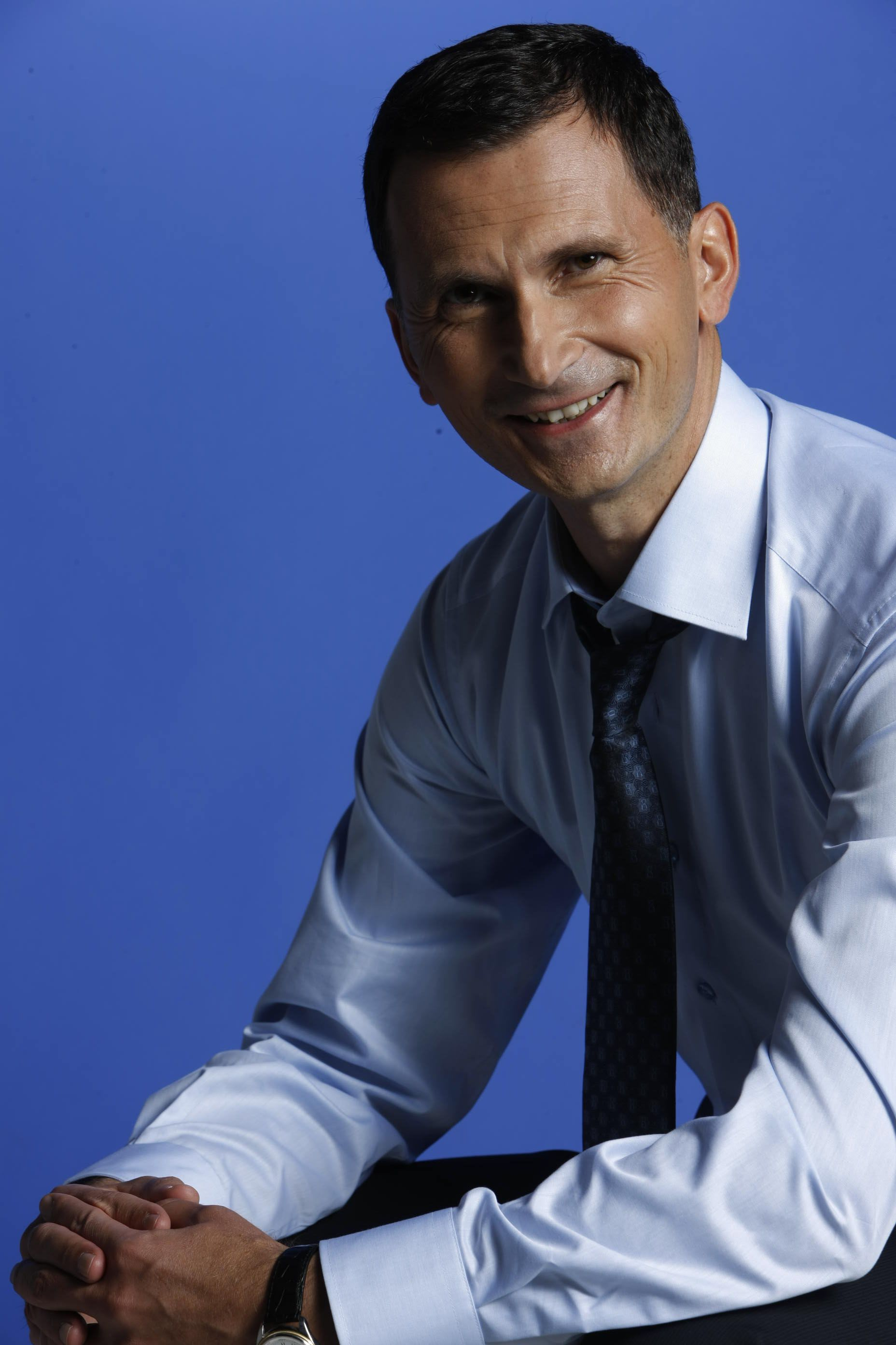 Dragan Primorac